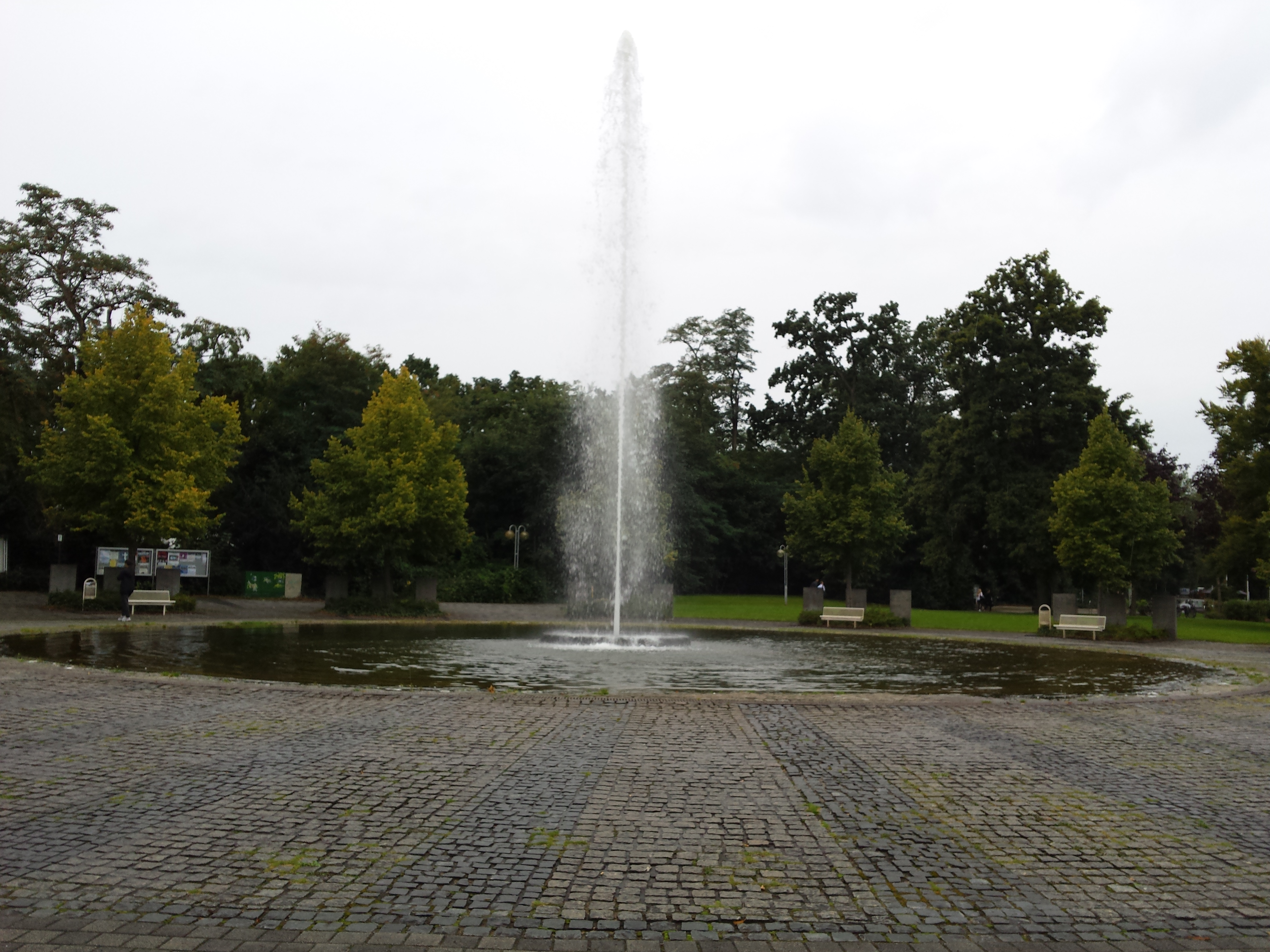 This is a picture of the "Jordansprudel" in the town of Bad Oeynhausen, Germany